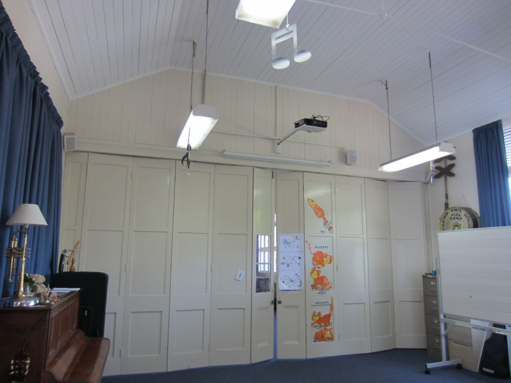 Virginia State School - Block C, ctr rm, from W (folding doors) (2015)